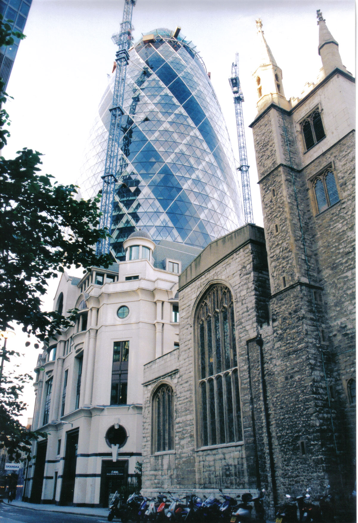 30 St Mary Axe just before completion